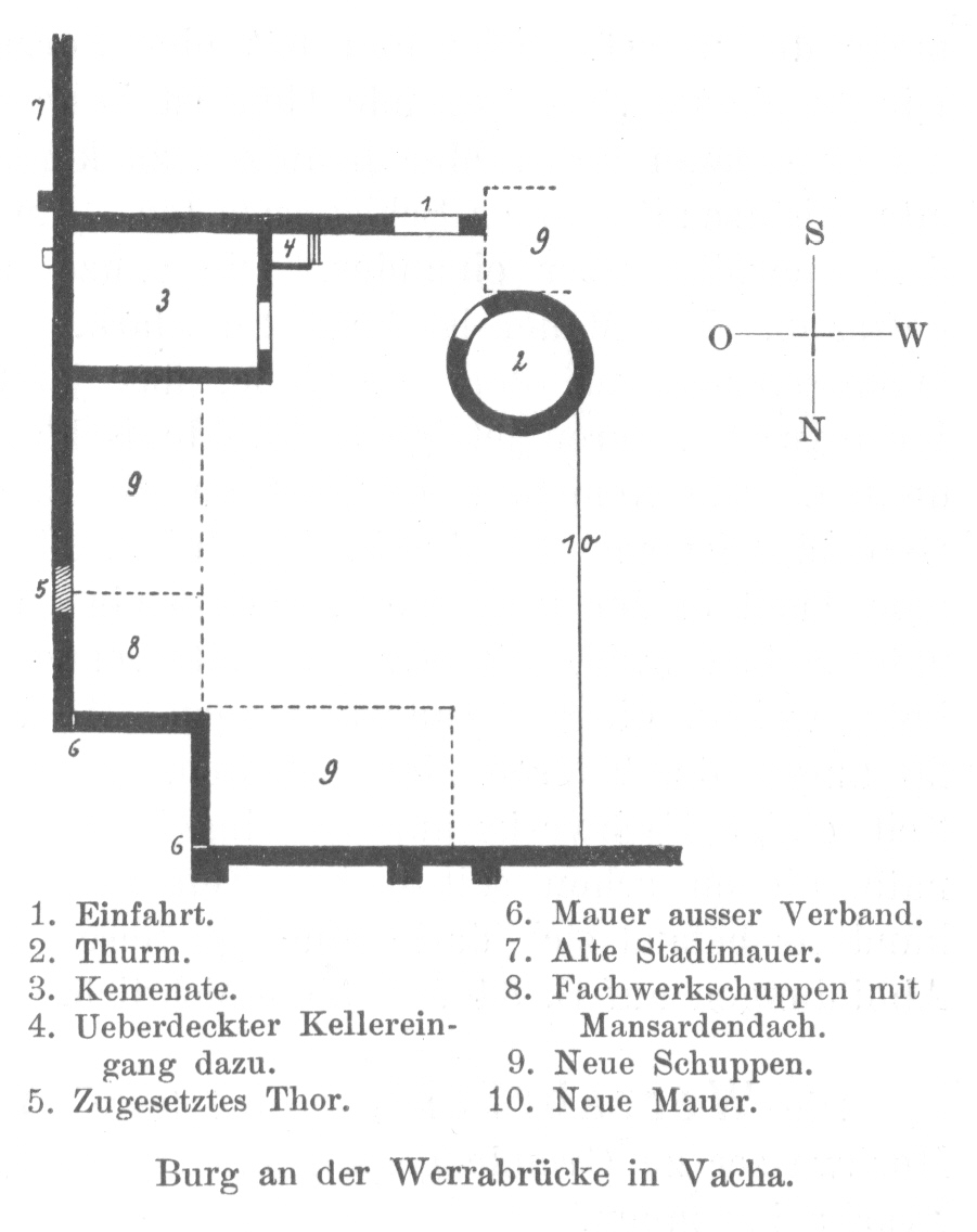 A map of Wendelstein castle in Vacha.